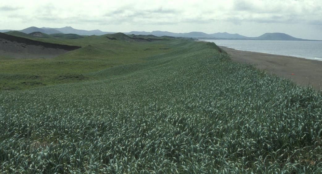 Dunes at Saint Paul Island (Pribilof Is.)